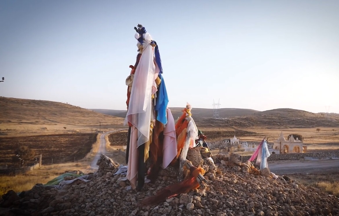 Yazidi shrine Mêrê Harab in Denwan, Turkey